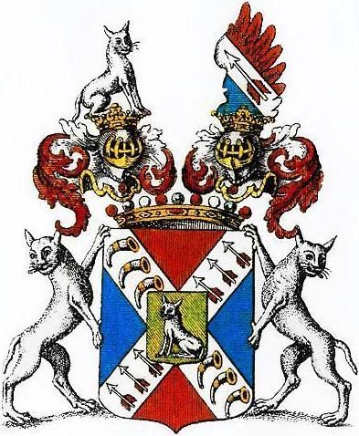 Coat of arms of the Counts of Luxburg (1790).